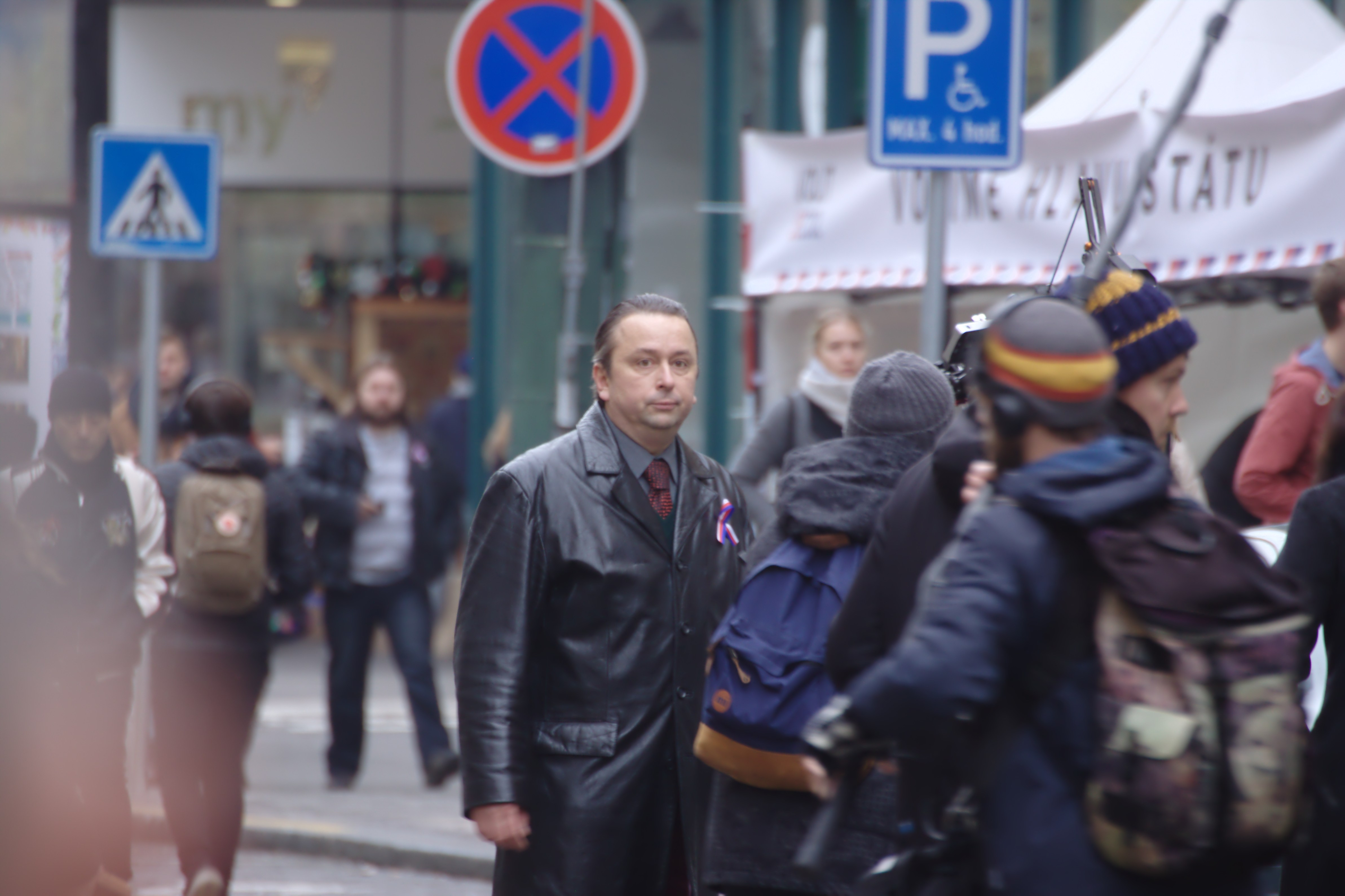 Prezident Blaník film being recorded in Prague, CZ Personality rights warningAlthough this work is freely licensed or in the public domain, the person(s) shown may have rights that legally restrict certain re-uses unless those depicted consent to such uses. In these cases, a model release or other evidence of consent could protect you from infringement claims.